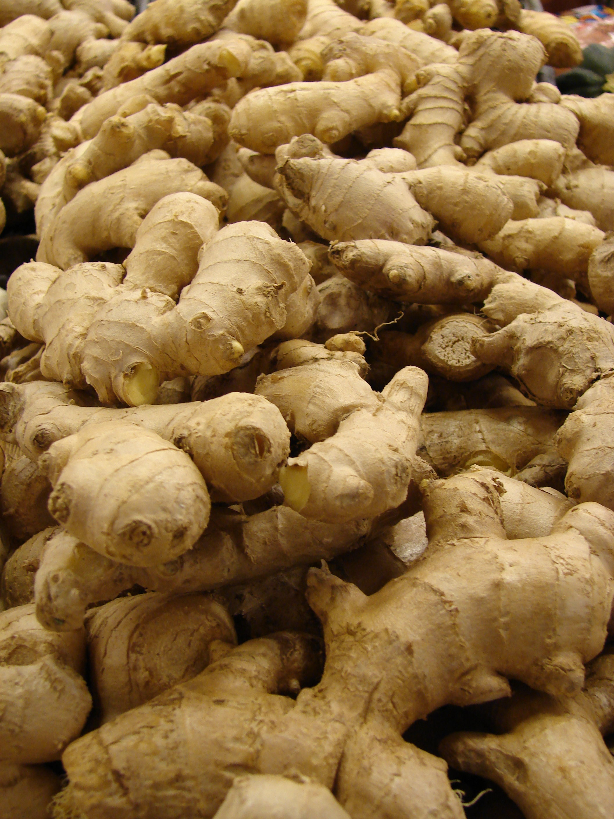 Zingiber officinale (root). Location: Maui, Foodland Pukalani